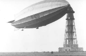 The HM Airship R100 was a rigid airship, the successful private counterpart to the British government R101 project, in a competition intended to maximize innovation. The dirigible is seen here docking in Saint Hubert, Quebec, in the Dominion of Canada.